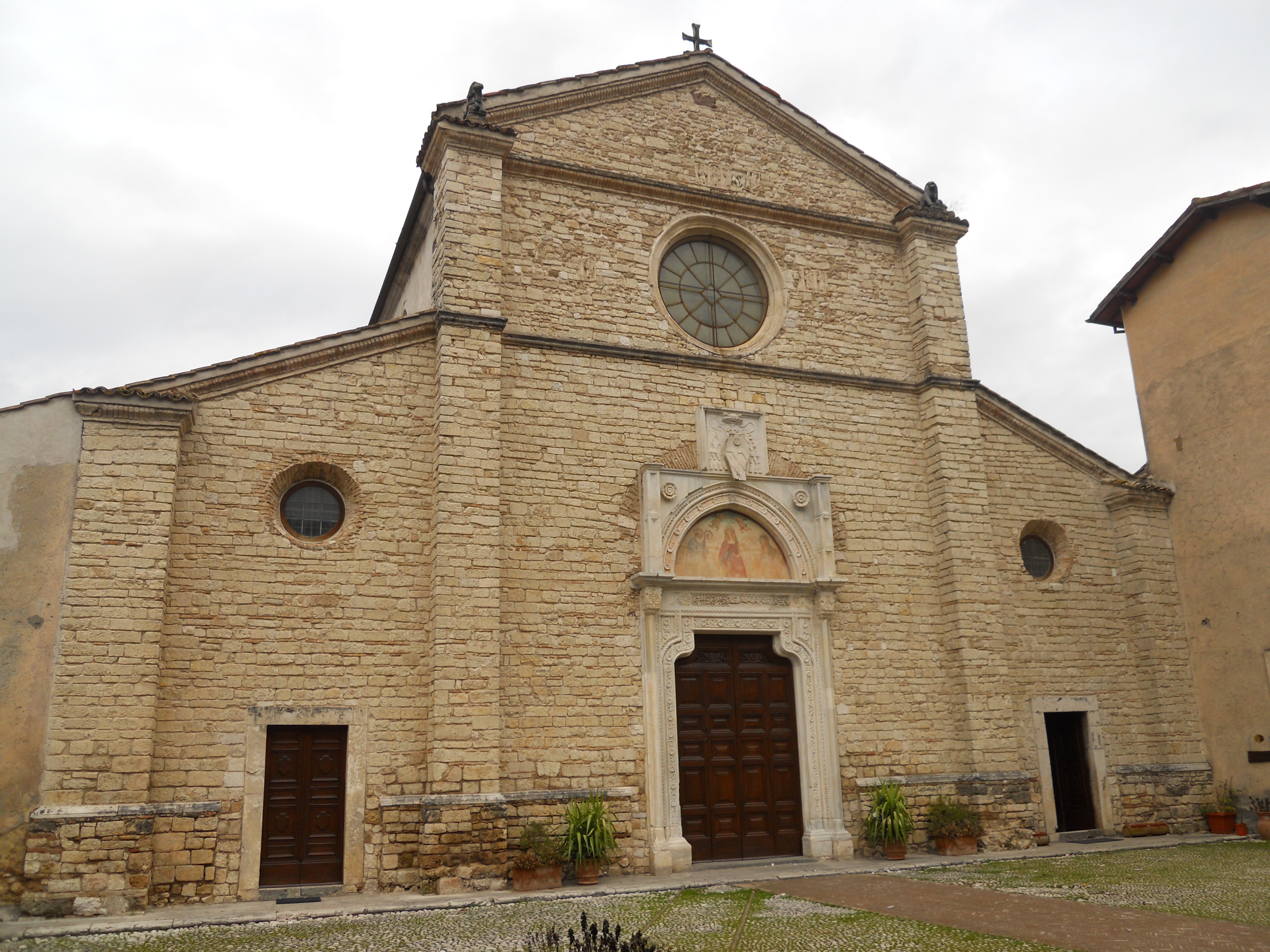 Front of the church of Farfa Abbey (Lazio, Italy)